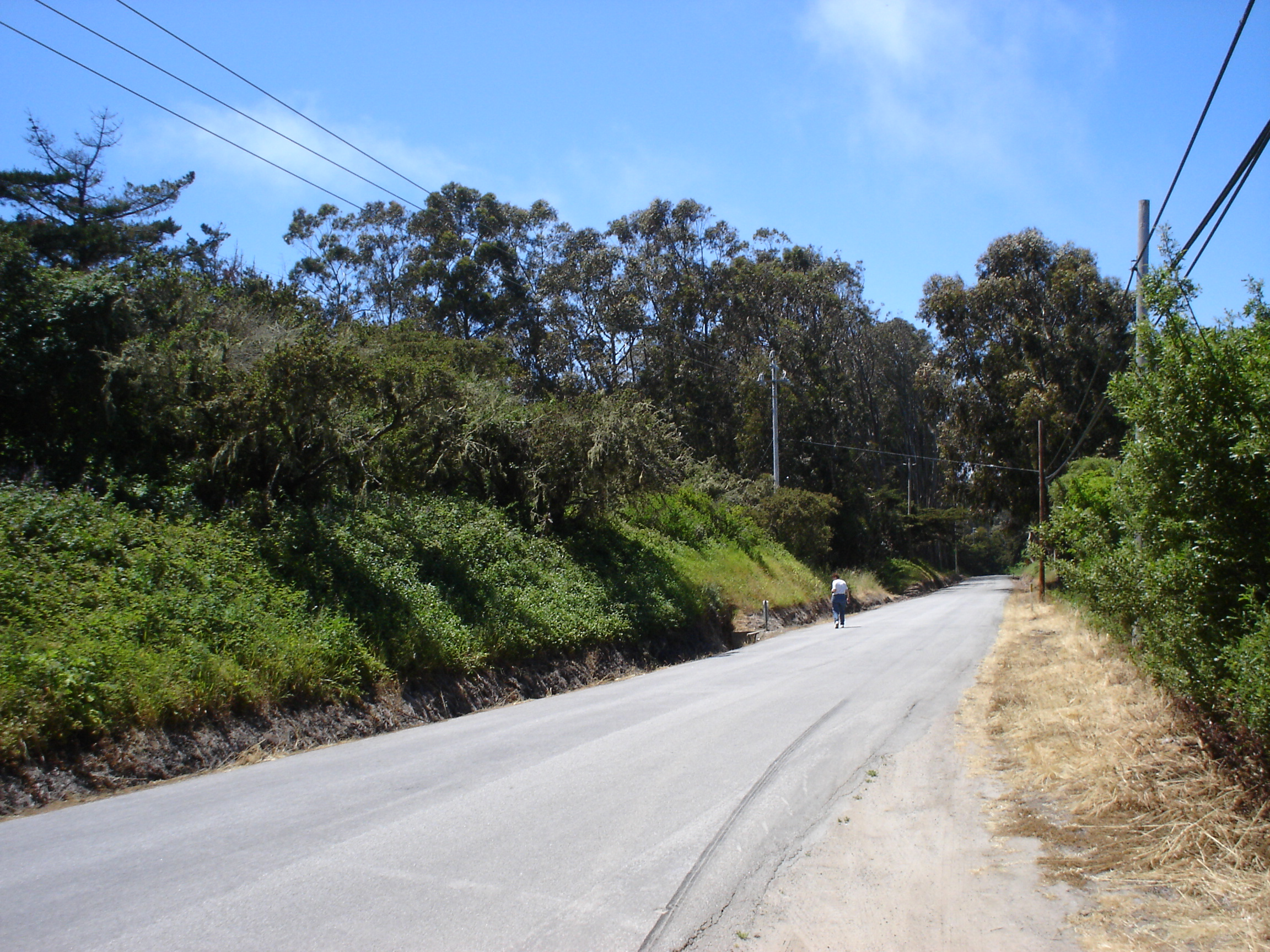 Author:Robert E. Nylund Source:Personal Photos